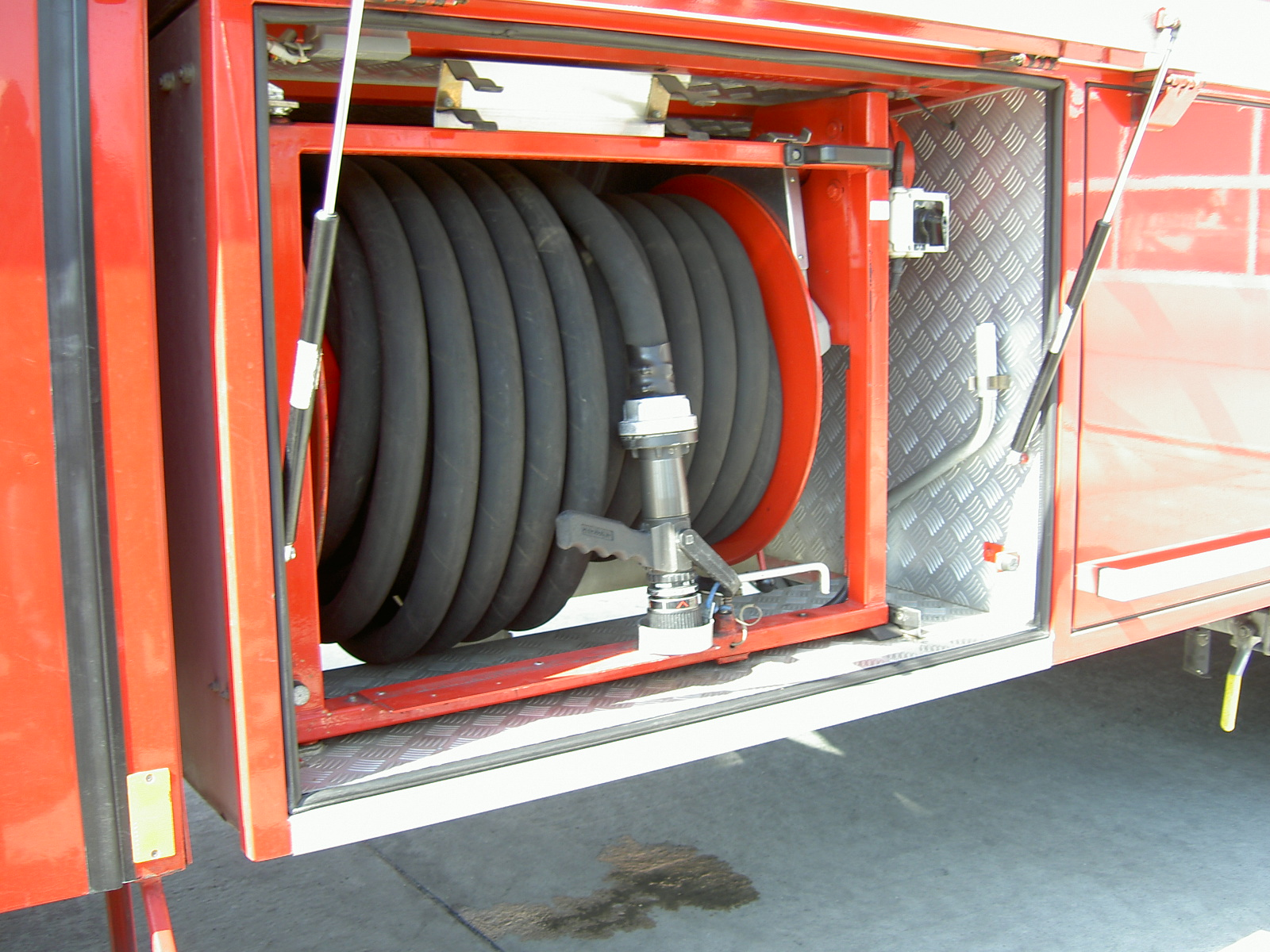 GFLF SIMBA 6 x 6 Hose